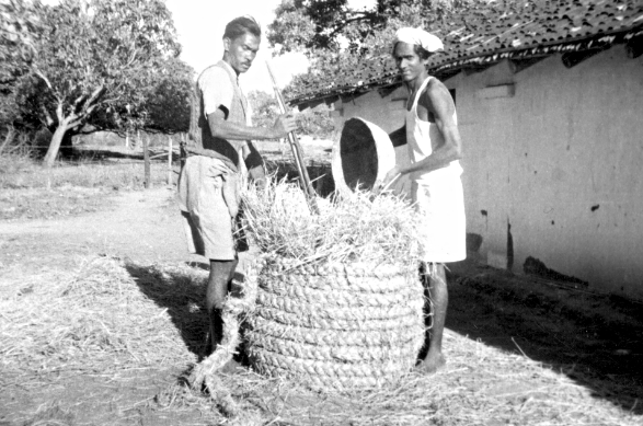 Caption: Servants pouring rice into a straw rope container for storing. Citation: Mennonite Board of Missions Photographs, 1898-1967. IV-10-007.2 Box 4 Folder 12. Mennonite Church USA Archives - Goshen. Goshen, Indiana.